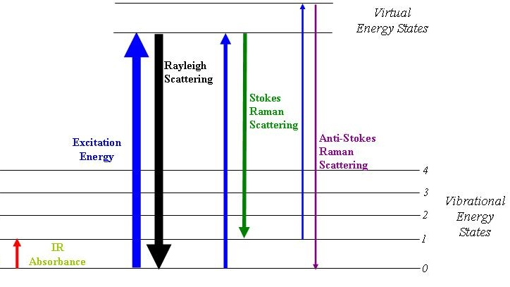 Molecular energy levels and Raman effect